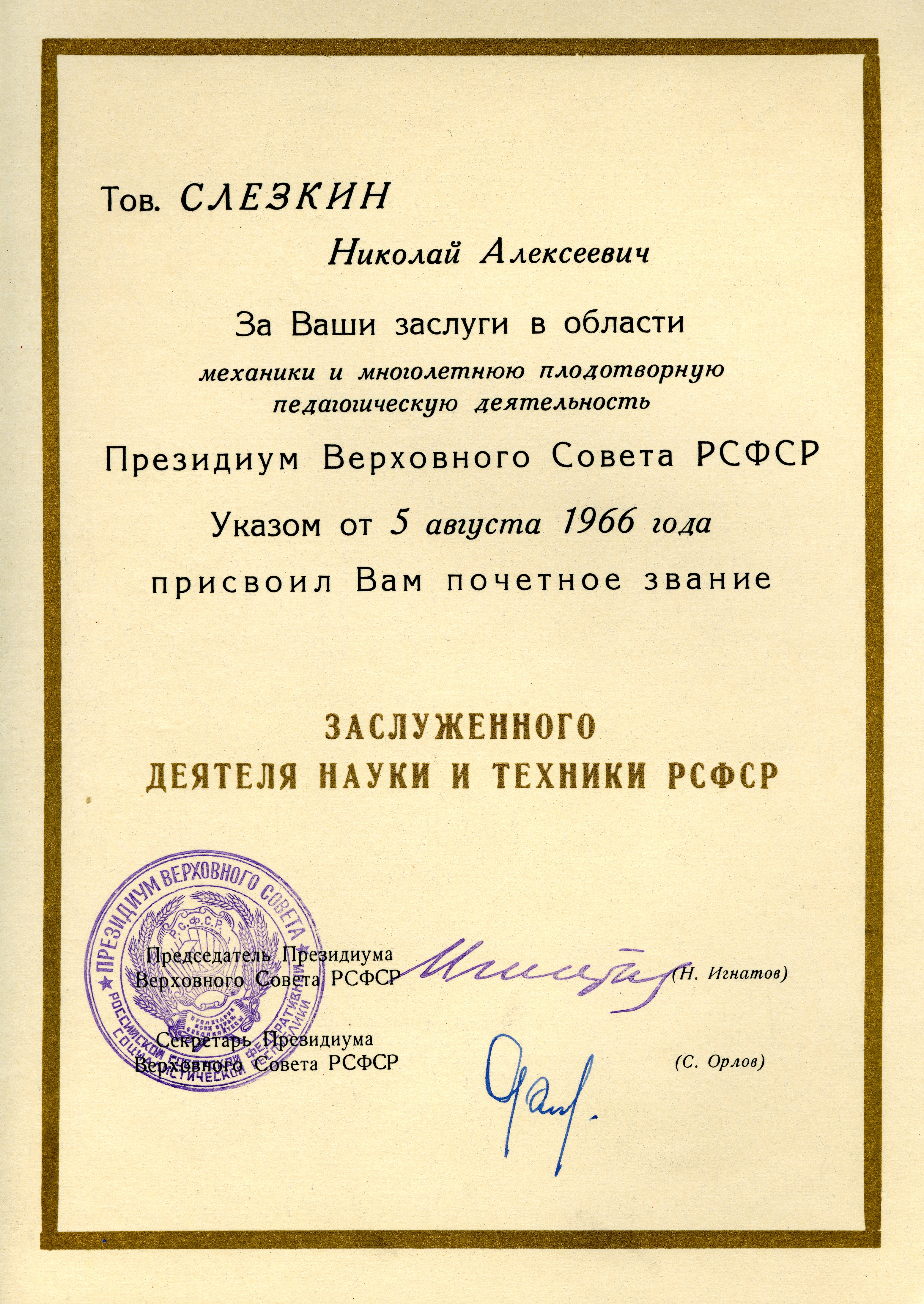 Honored Worker of Science and Technology of the RSFSR